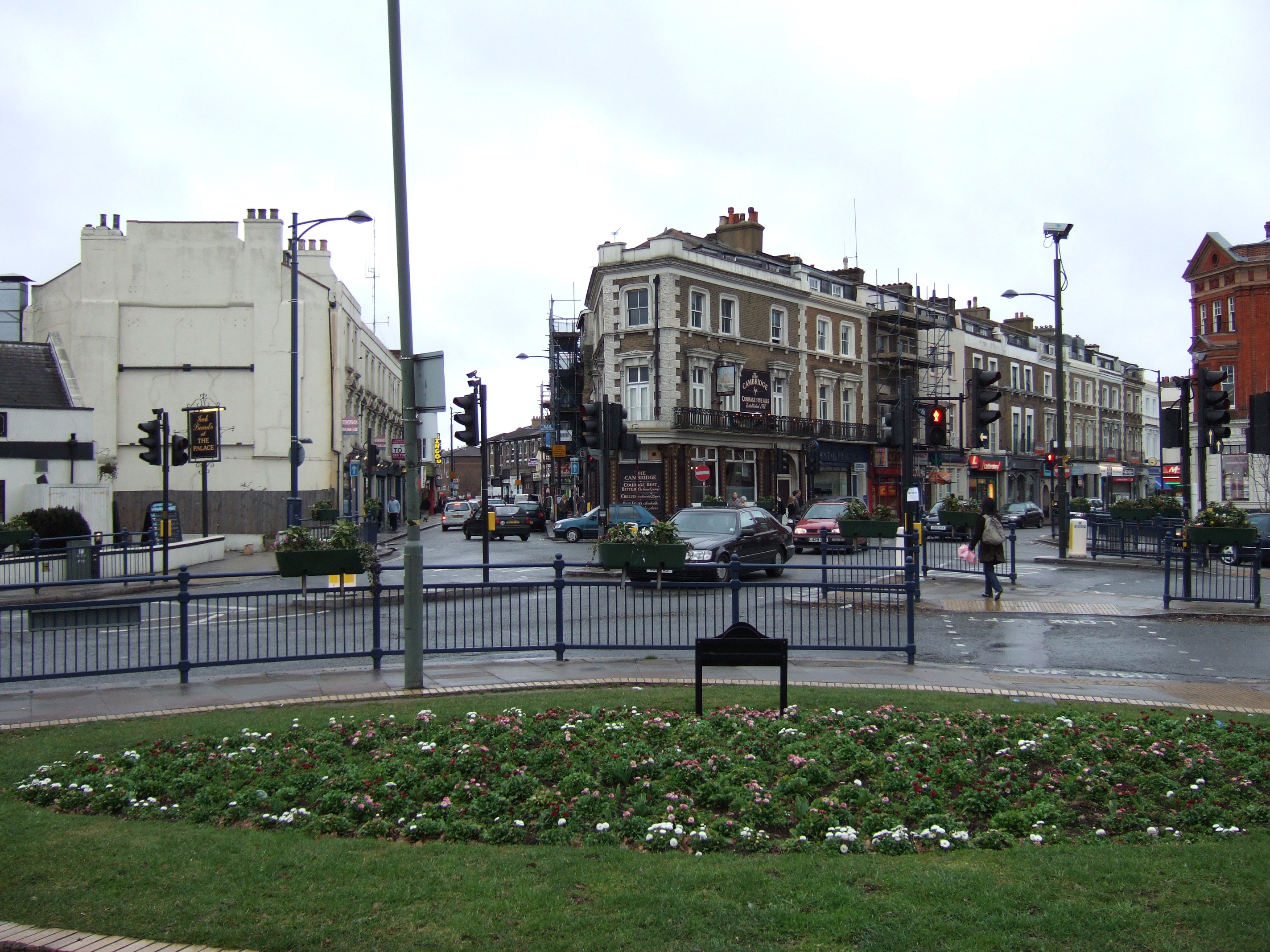 Crystal Palace from Crystal Palace Park, at the junction of Westow Hill & Church Road